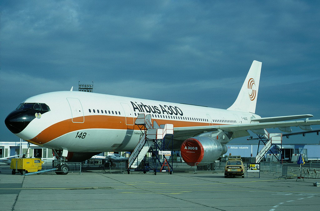 Airbus A300B2-103 (F-WUAD) at Le Bourget Airport, with a Saab 99 follow-me car